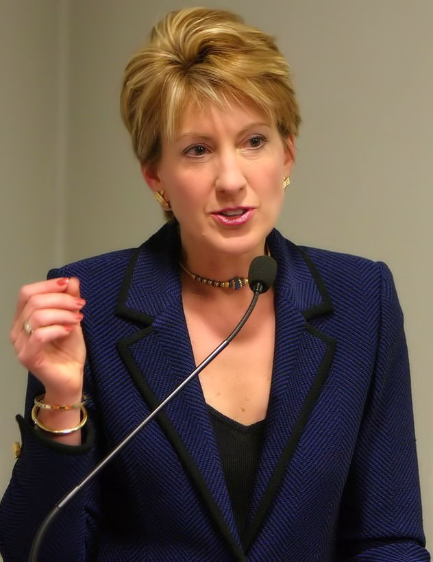 Carly Fiorina in Sao Paulo, Brazil - 2004; Agência Brasil/Antônio Milena/AB This photograph was produced by Agência Brasil, a public Brazilian news agency. Their website states: "Todo o conteúdo deste site está publicado sob a Licença Creative Commons Atribuição 3.0 Brasil exceto quando especificado em contrário e nos conteúdos replicados de outras fontes." (English translation: All content on this website is published under the Creative Commons Attribution 3.0 Brazil License unless specified otherwise and content replicated from other sources.)